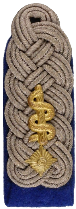 Rank insignia of the German Wehrmacht (Heer) until 1945, here shoulder board. Rank: “Senior field surgeon” (en: Colonel lieutenant (Dr.)), comparable to Army lieutenant, NATO OF-4 Corps colour of the medical corps – “blue”.